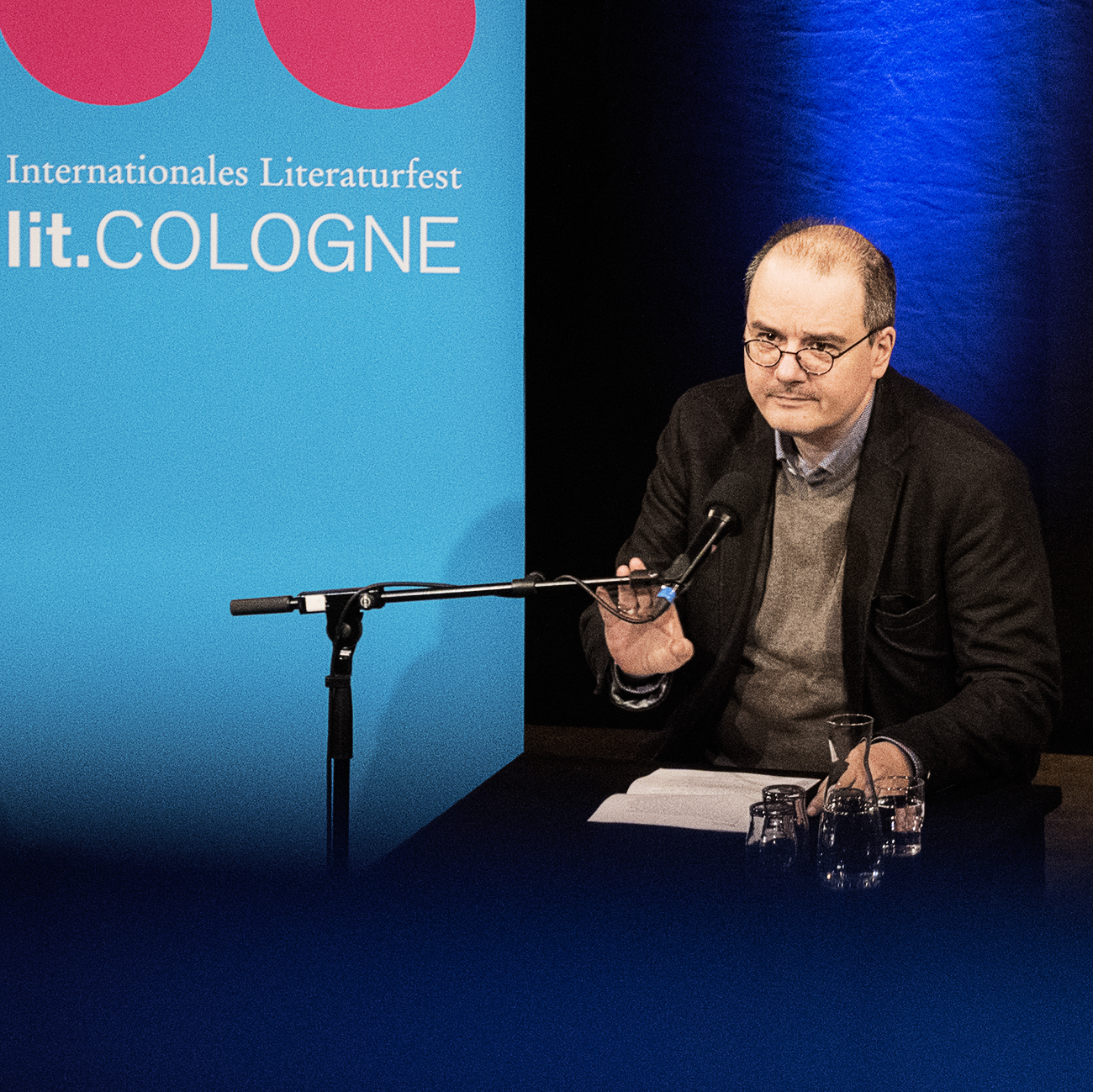 Sherko Fatah, Writer